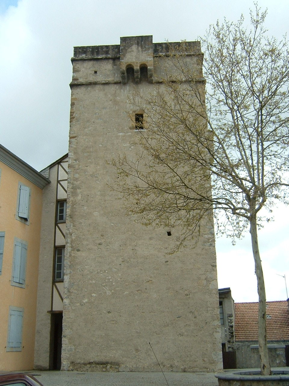 Lourdes : Garnavie Tower (XIVth century)